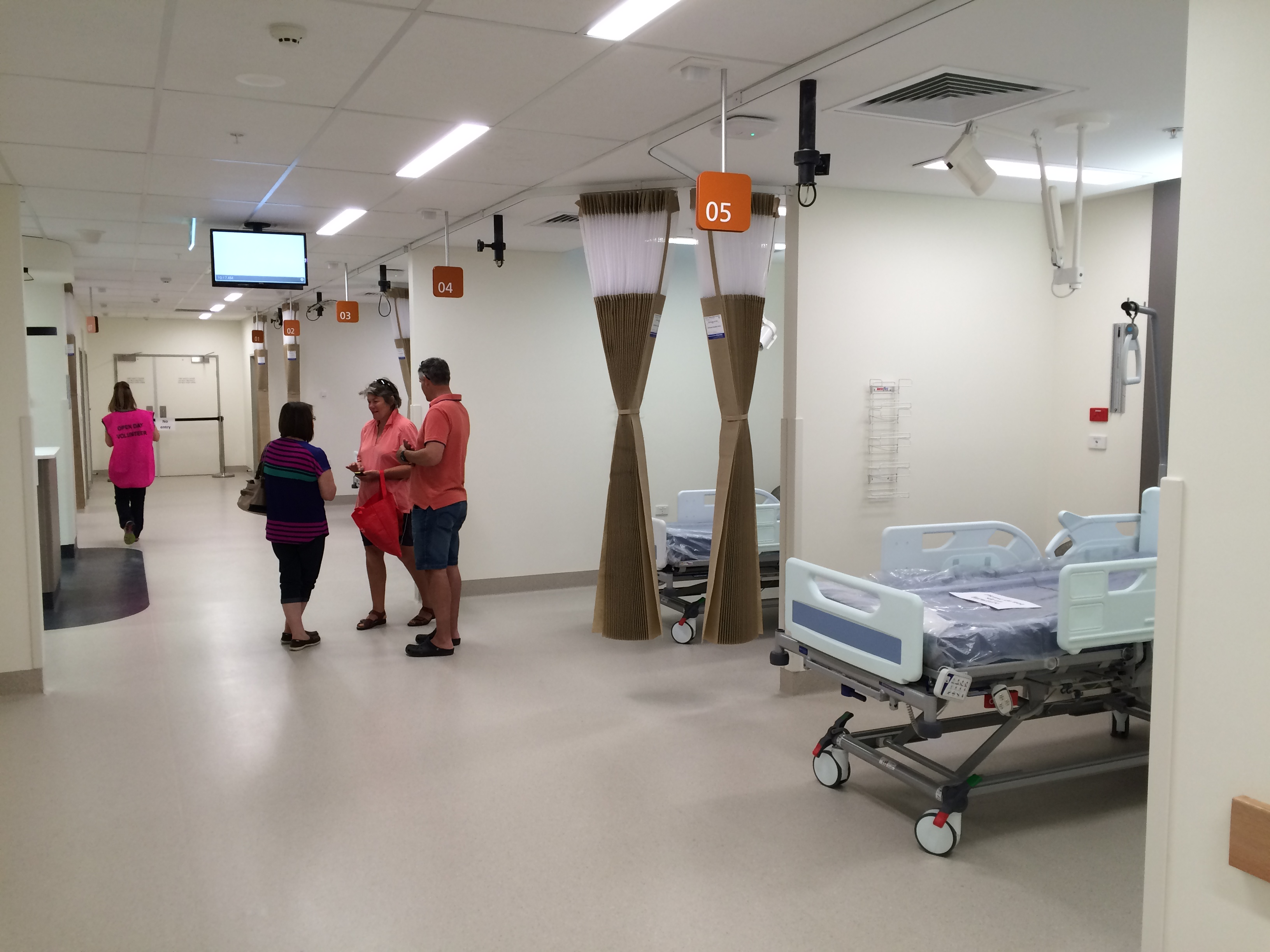 Emergency Department in the Wagga Wagga Rural Referral Hospital.